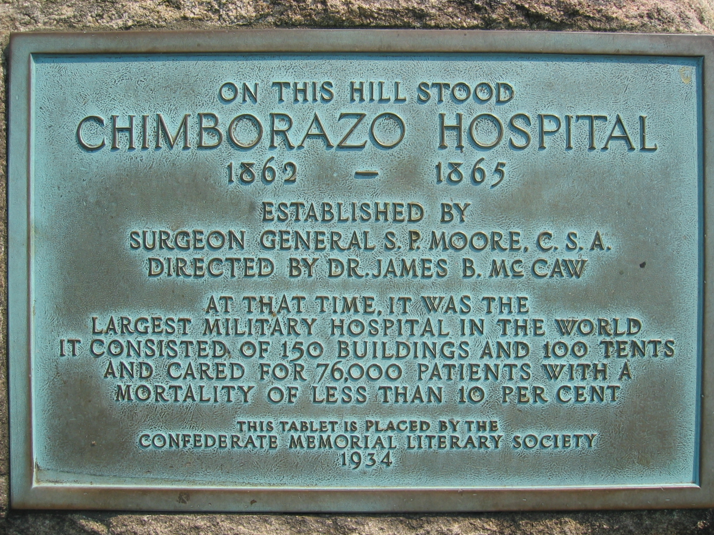 Chimborazo Hospital Marker in Chimborazo Park, Richmond, Virginia (from The Historical Marker Database (